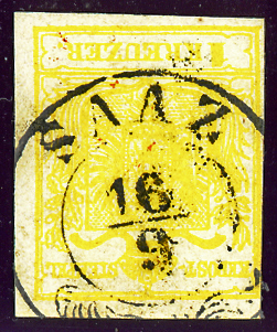 Austrian KK 1 kreuzer stamp, issue 1850, cancelled SAAZ (Žatec, Bohemia) - Mueller RDb-f 10 Points